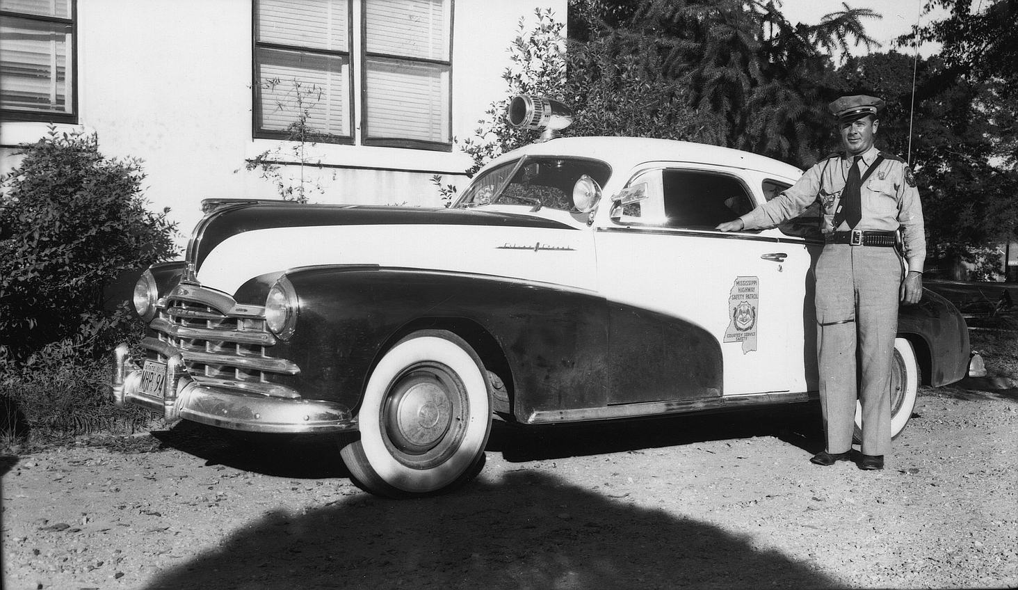 Collection: Witbeck, C. W., Photograph Collection Call number: PI/COL/1982.0016 System ID: 102484. Link to the catalog Mississippi Highway Safety Patrol, District 9, Brookhaven, Miss., 1949. Patrolman Garner stands beside patrol car. Please see our profile page for information on ordering. Scanned as tiff in 2010/04/06 by MDAH. Credit: Courtesy of the Mississippi Department of Archives and History